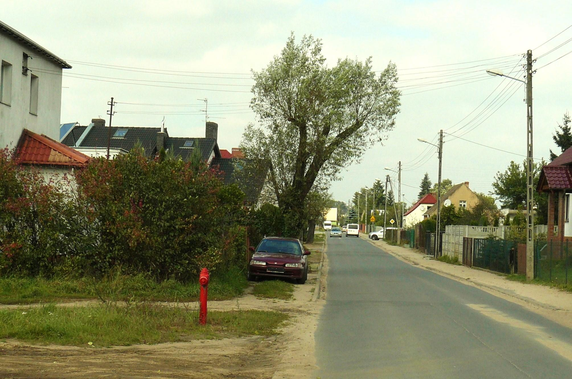 Poznan, Perzycka Street.